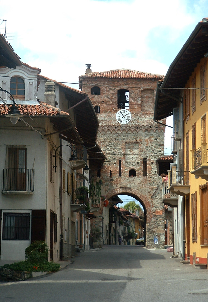 Borgh ëd Pivron, tor romànica (Town of Piverone, romanich tower)